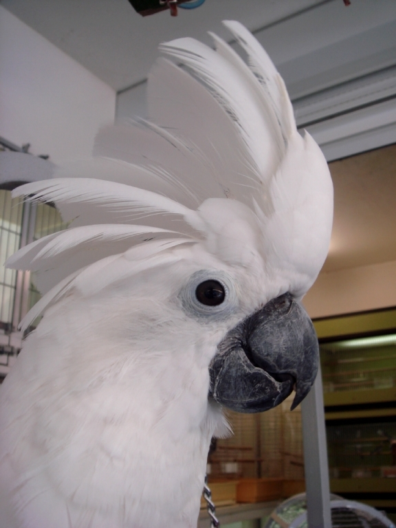 Umbrella Cockatoo (Cacatua alba) also known as the White Cockatoo.